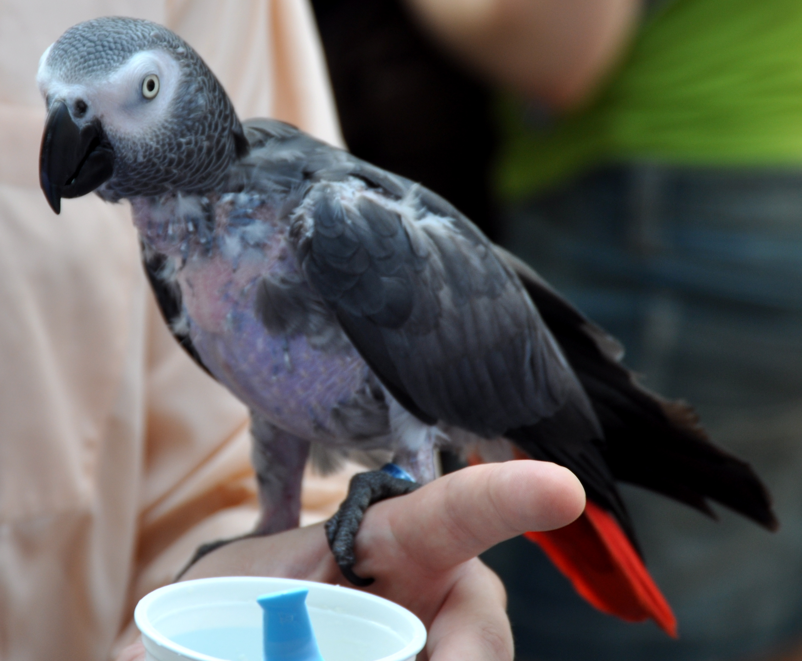 Congo African Grey Parrot showing some feather loss possibly feather plucking. Pet parrot, has ring on left leg.